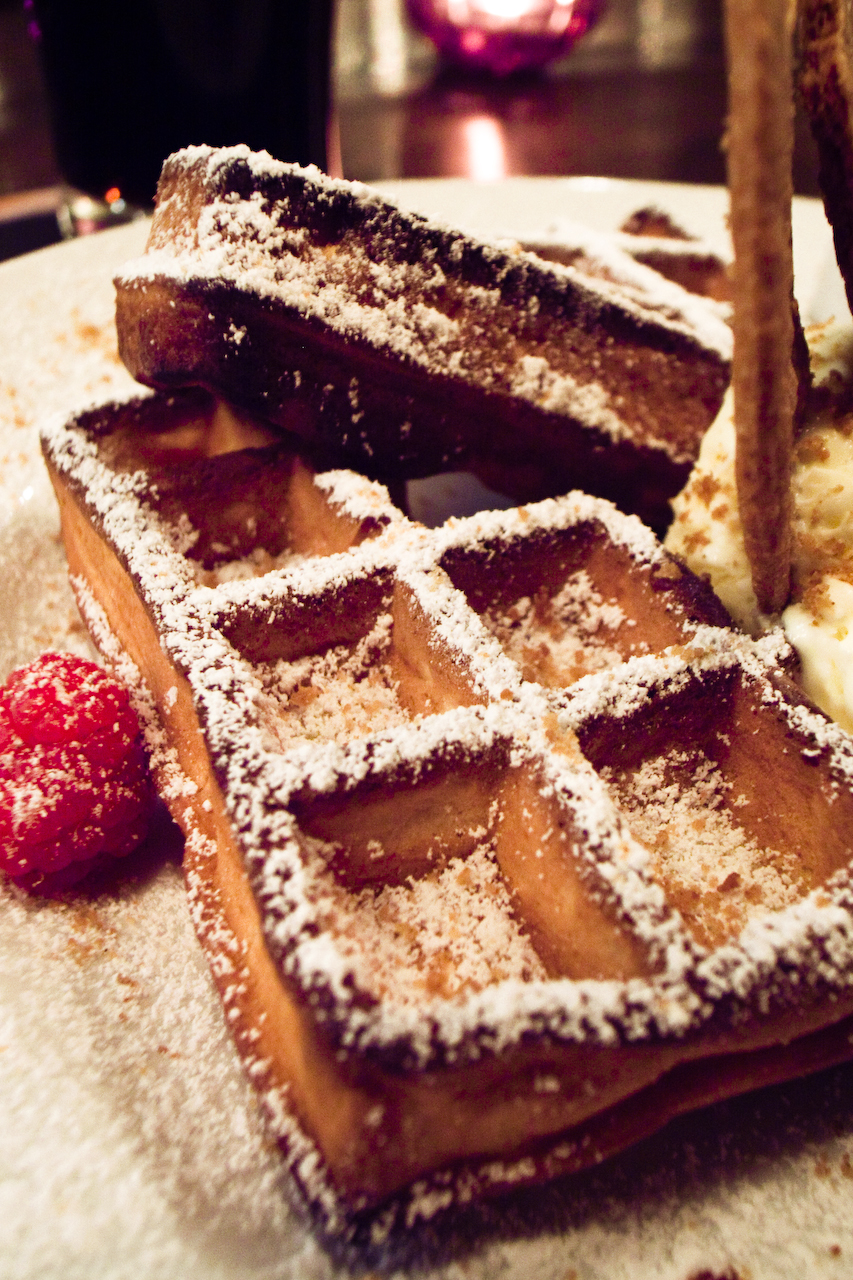 The local waffle type in Brussels